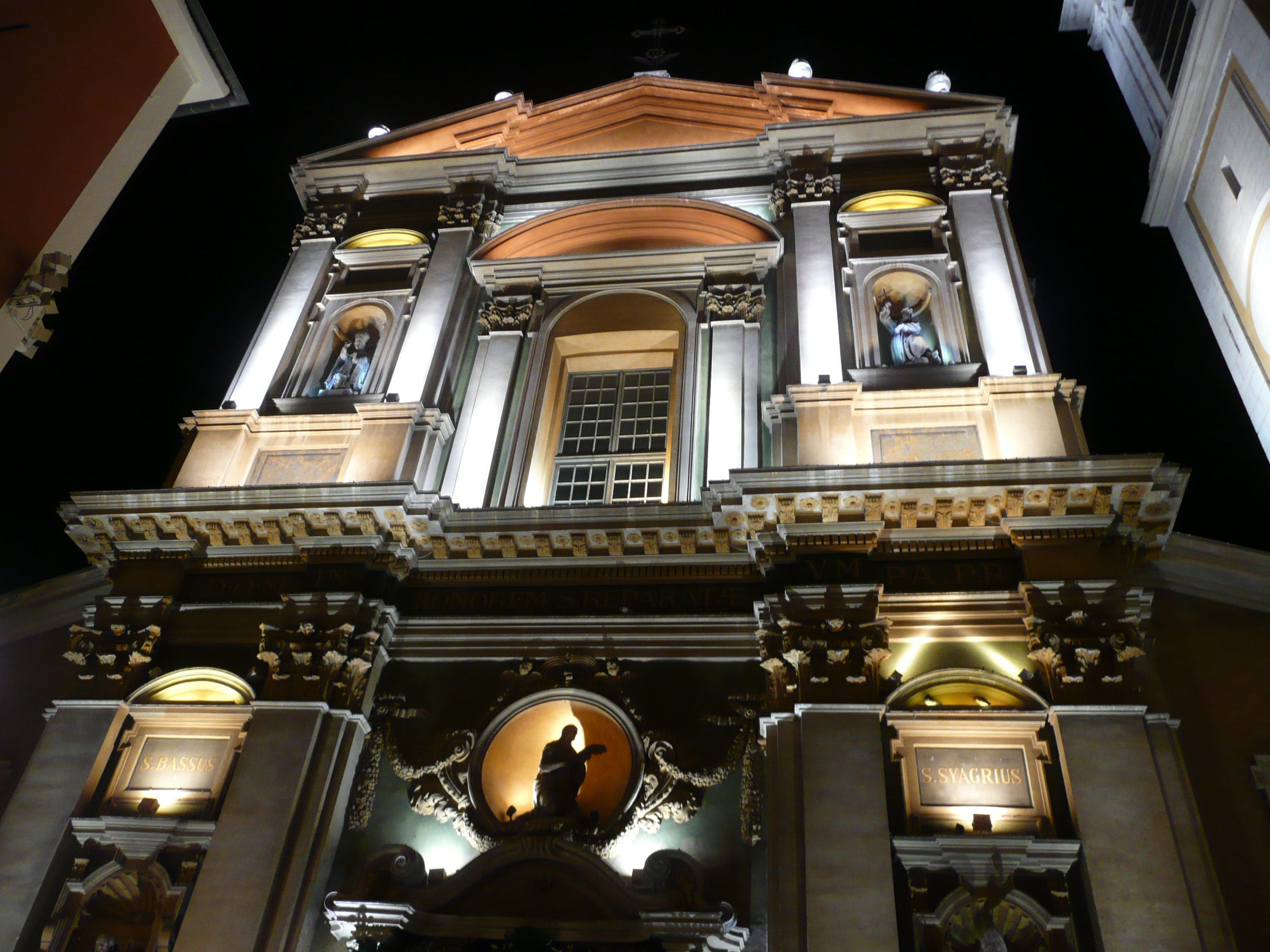 Cathédrale Sainte Réparate in Nice